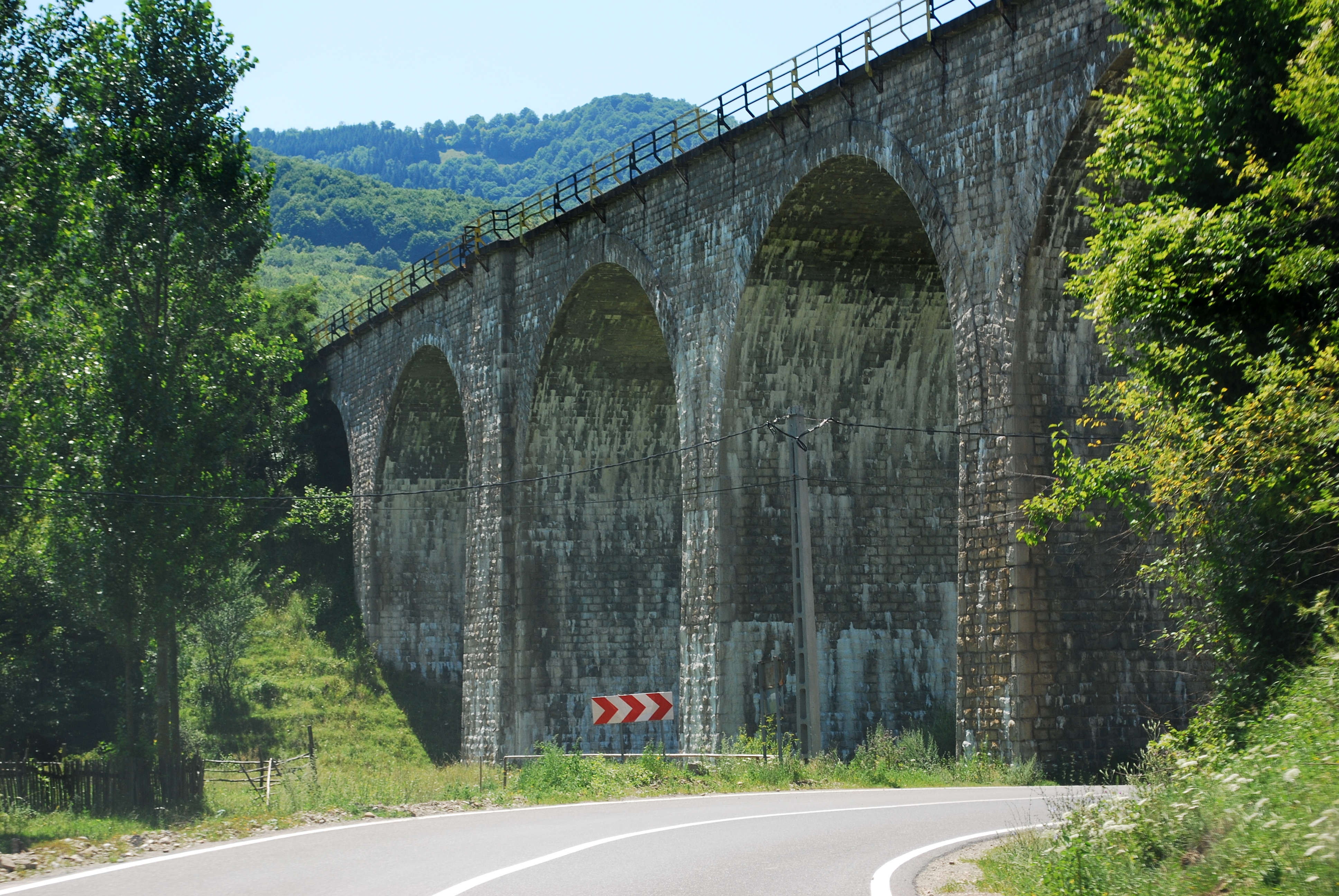 Viaduct over DN10 in Teliu, Braşov, Romania